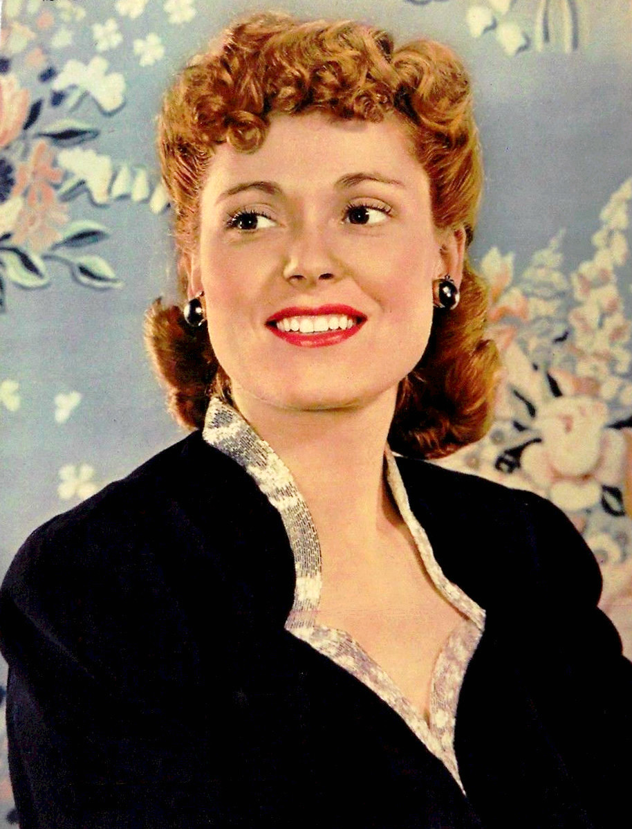 Photo of Martha Scott published by the New York Sunday News in 1942. The publication date can be seen at upper right on the uncropped page.